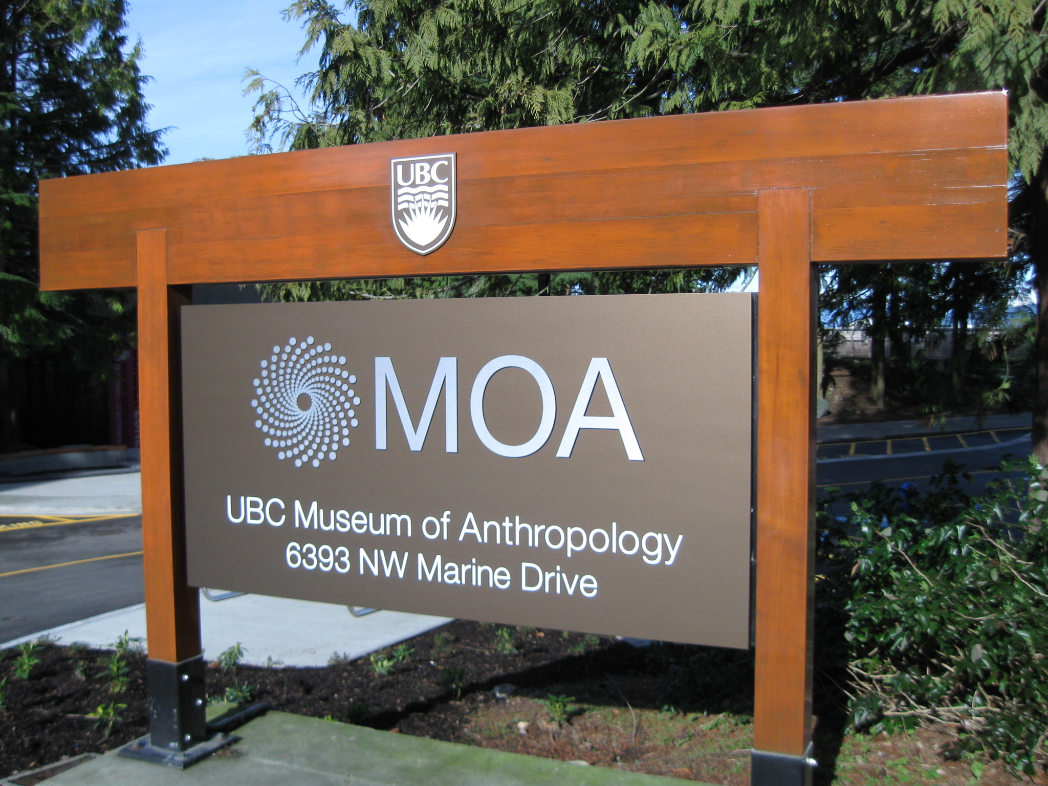 This is the new 2010 street sign for the UBC Museum of Anthropology building in Vancouver, Canada.